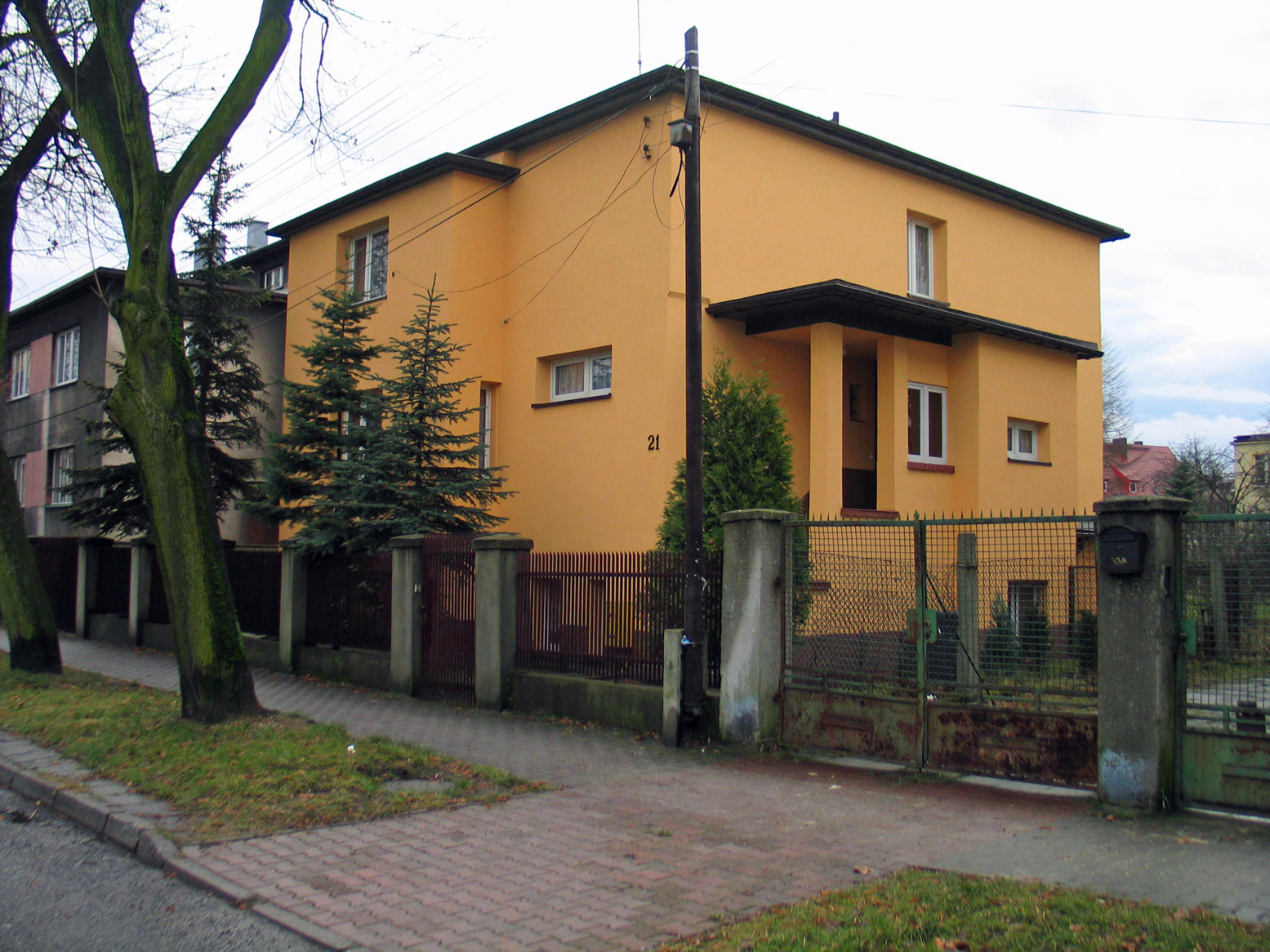 House in Katowice, Ligota where famous composer Bolesław Szabeslki worked shortly after end of WWII